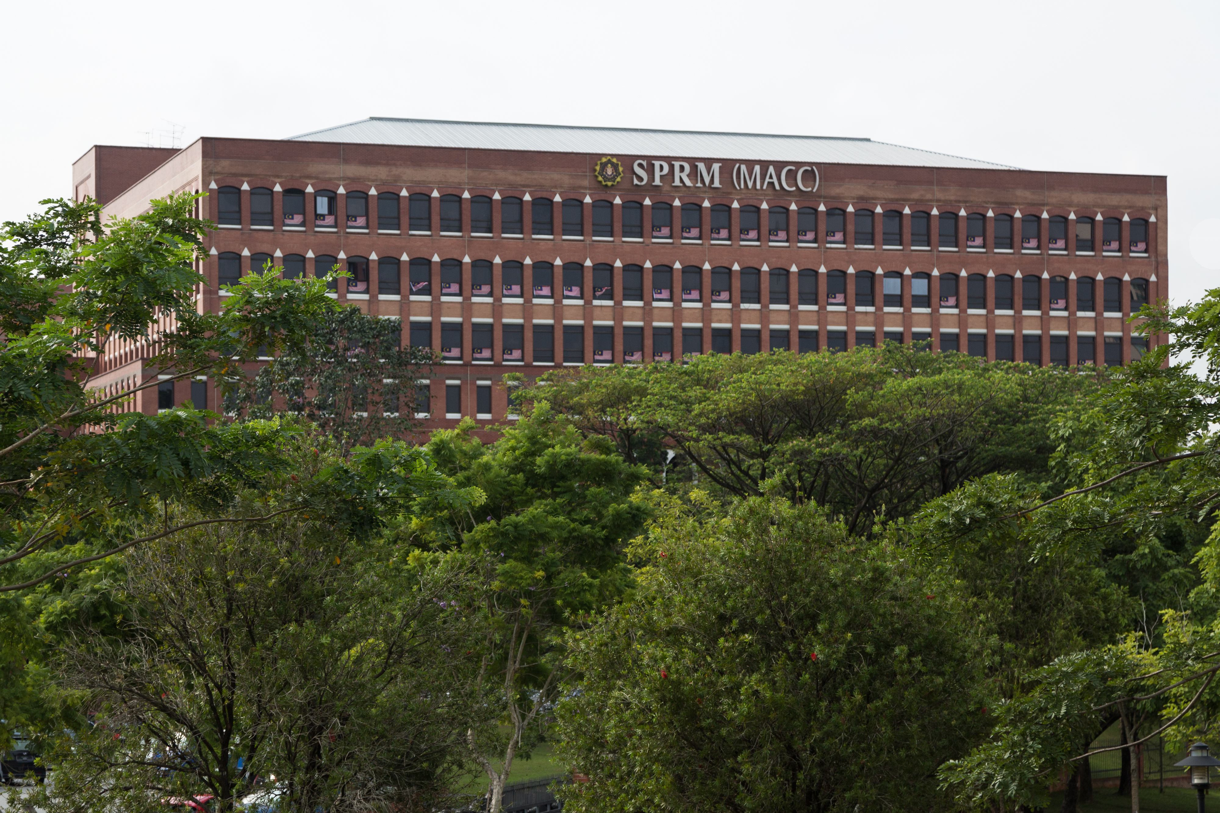 Putrajaya, Malaysia: Suruhanjaya Pencegahan Rasuah Malaysia (SPRM) aka Malaysian Anti-Corruption Commission (MACC) in Putrajaya.